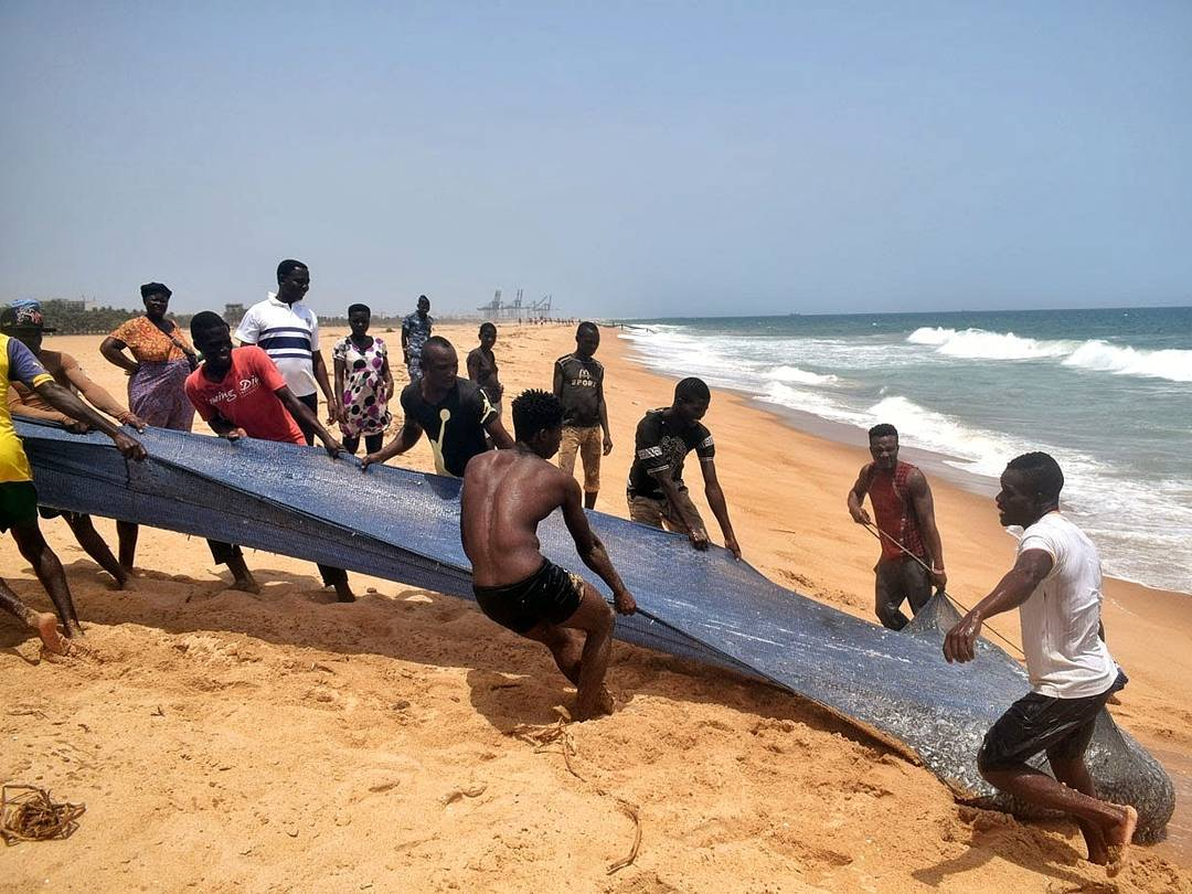 Work team and african rhythm This is an image of "African people at work" from Togo